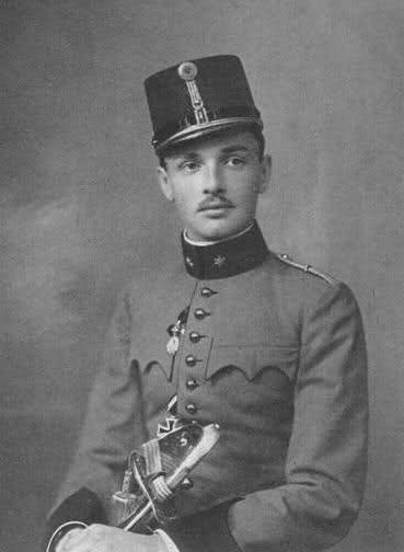 Archduke Maximilian Eugen of Austria (1895-1952)